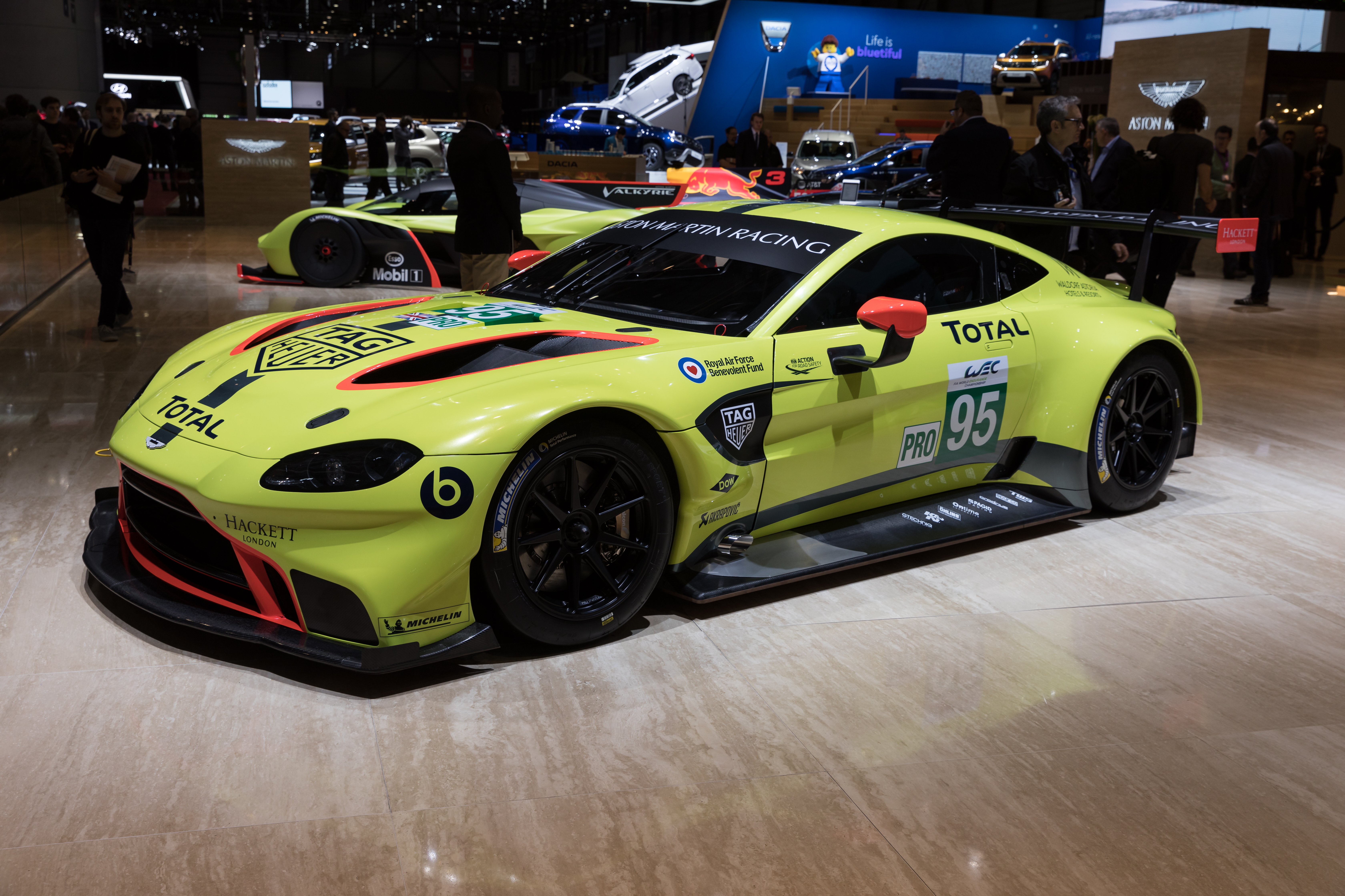 Geneva International Motor Show 2018